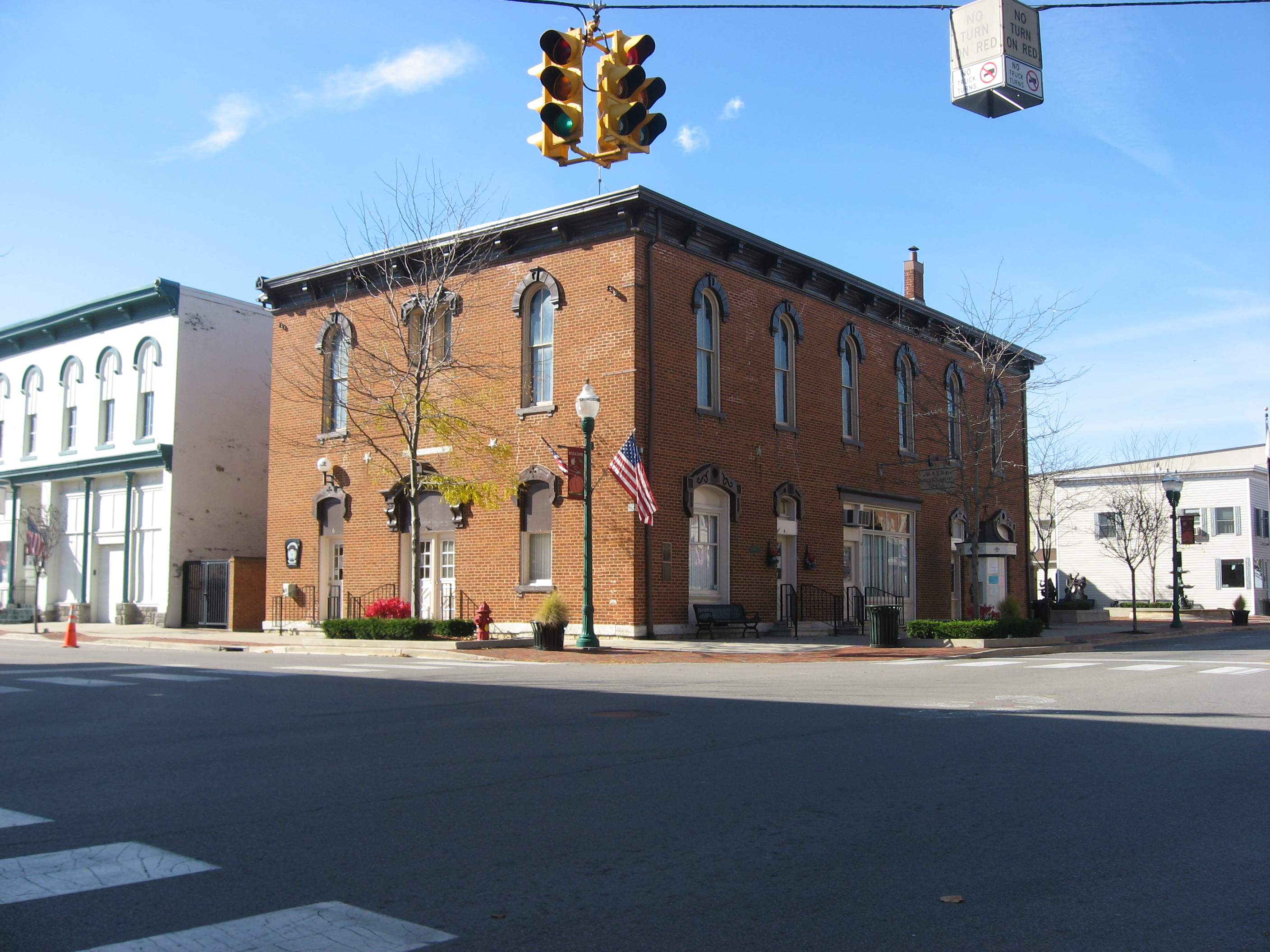 Northern and eastern sides of the Versailles Town Hall and Wayne Township House, located on the southwestern corner of Main and Center Streets (State Routes 47 and 185 respectively) — officially 4 W. Main Street — in central Versailles, Ohio, United States. Built in 1876, it is listed on the National Register of Historic Places.